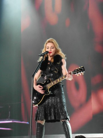 Madonna concert in Barcelona